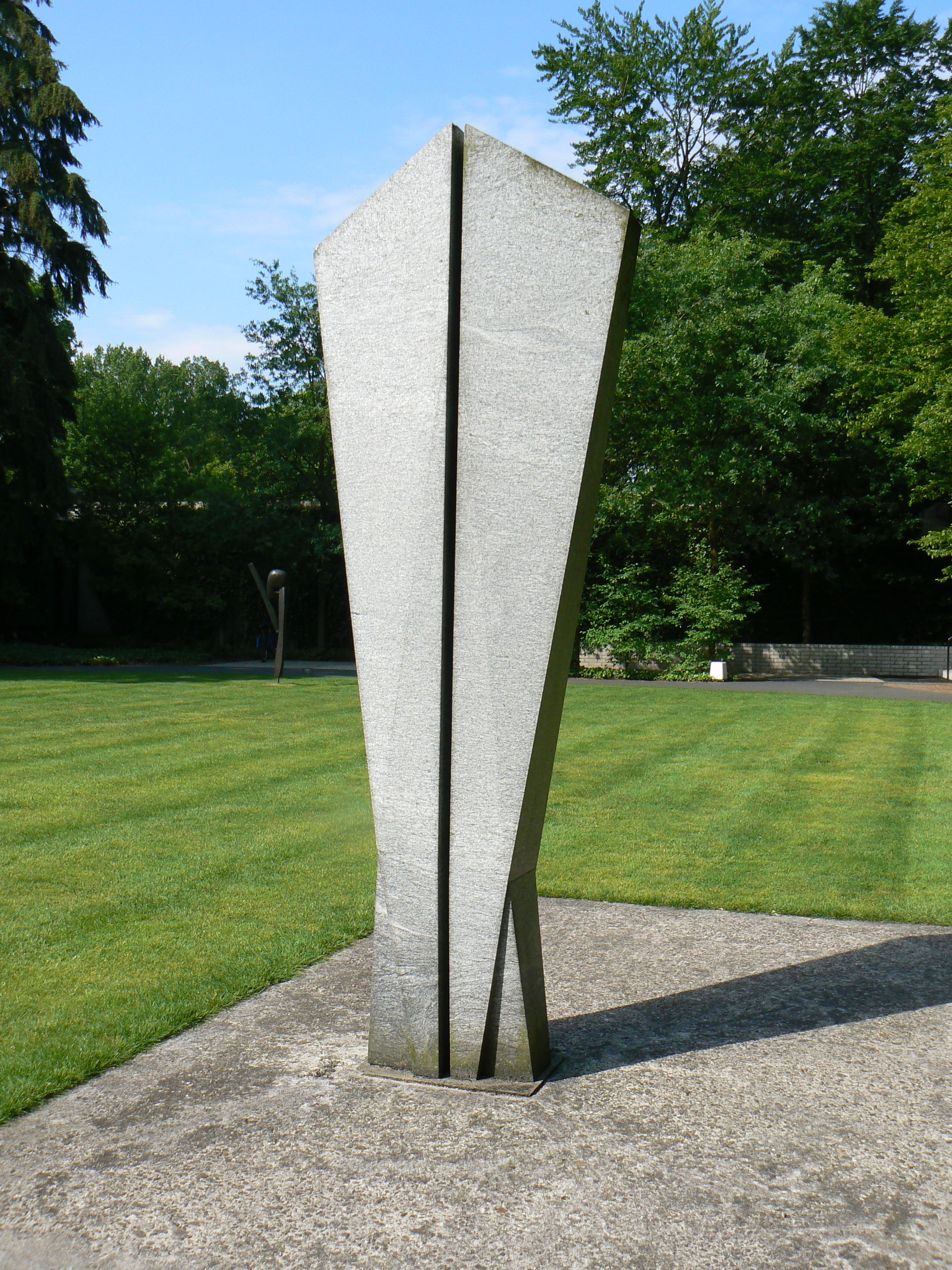 sculpture Grosse Figur 1 (1961) by Hans Aeschbacher sculpturepark KMM/The Netherlands